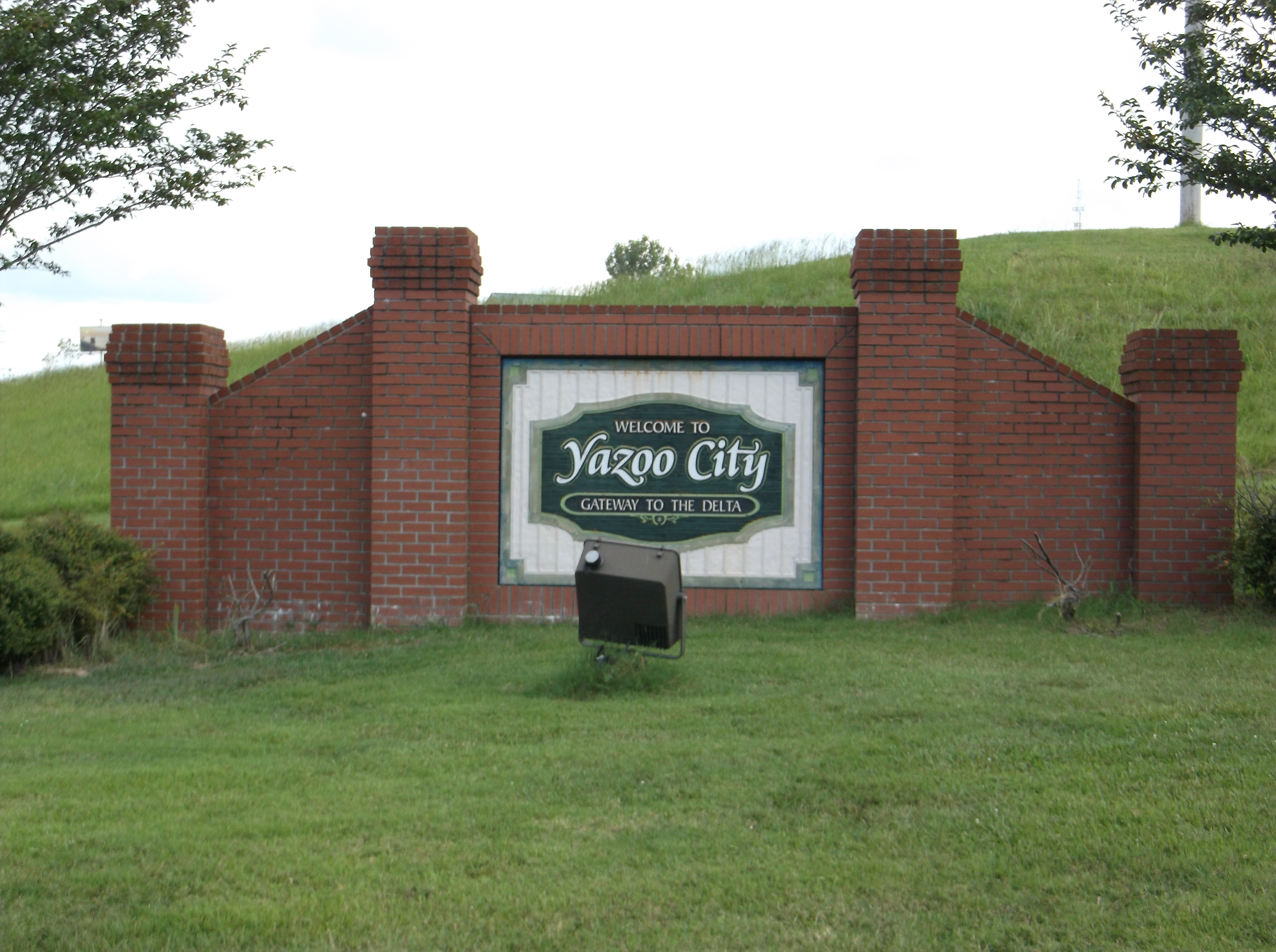 Welcome sign located on US Highway 49